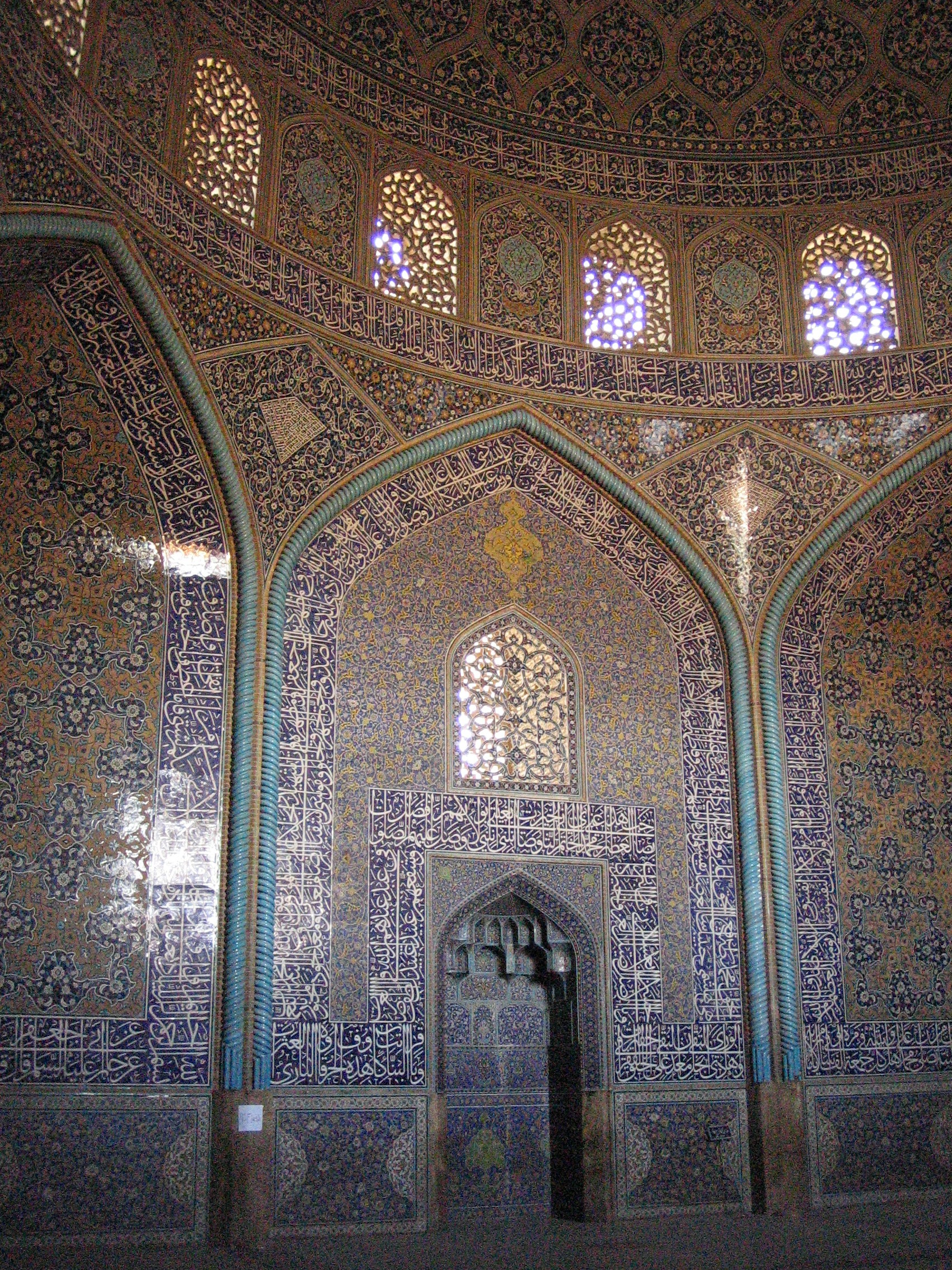 Mihrab of the Sheikh Lotf Allah Mosque, Isfahan